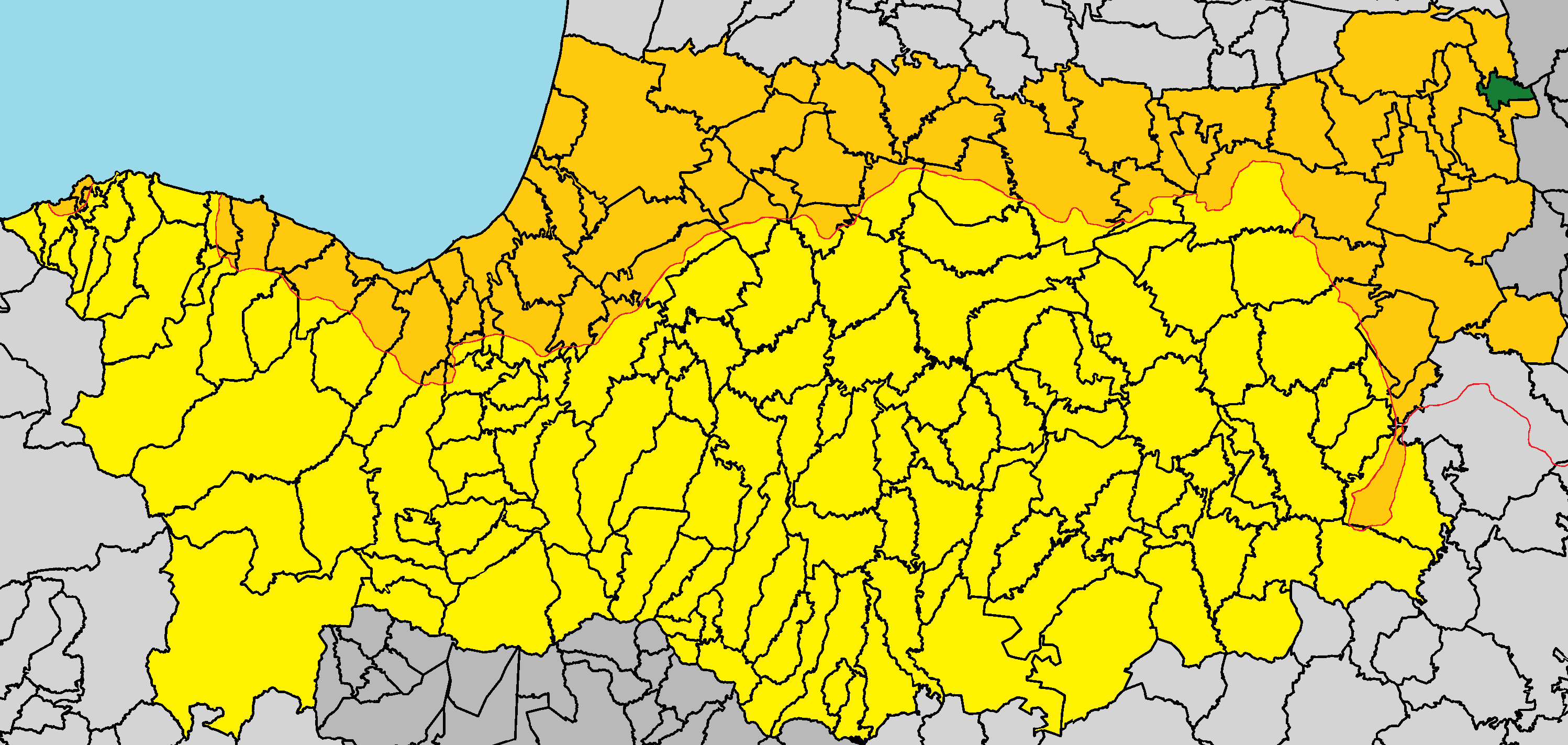 Petra tou Digeni in Nicosia District (de jure).